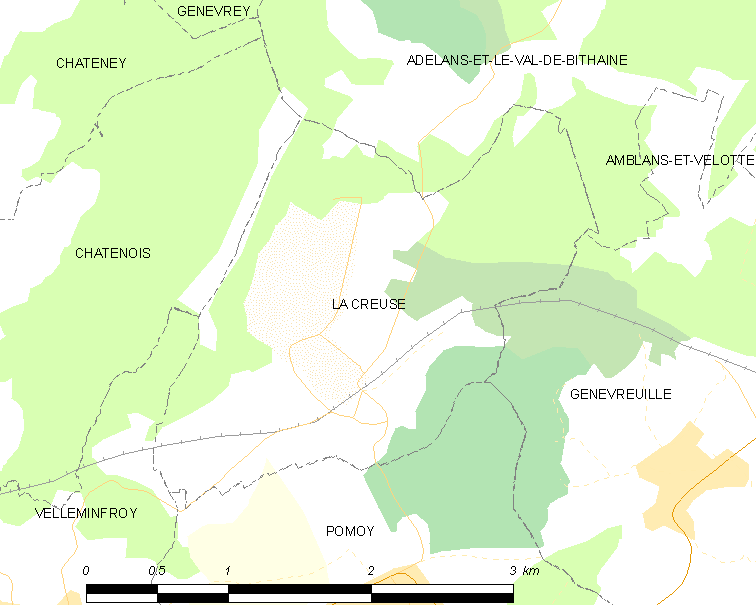 Map of French municipality